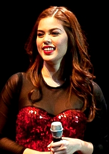 Shaina Magdayao attending the Star Magic Tour on April 16, 2011.